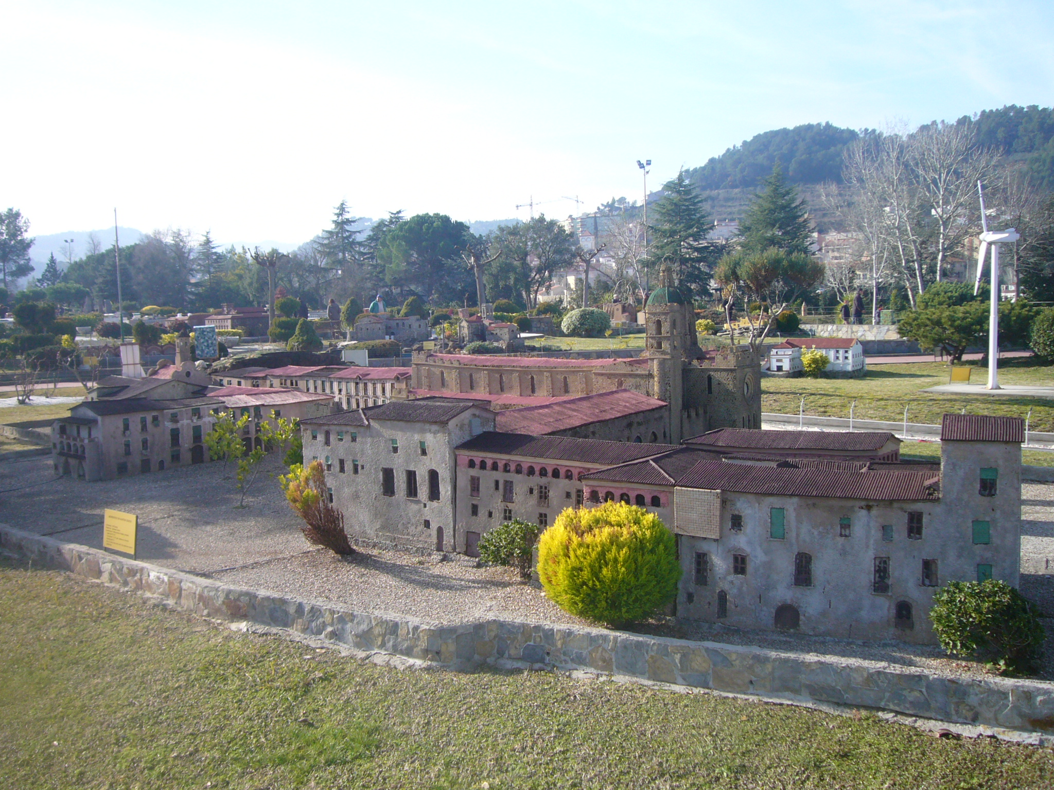 Scale model at the "Catalunya en Miniatura" miniature park : Monastery of Santes Creus